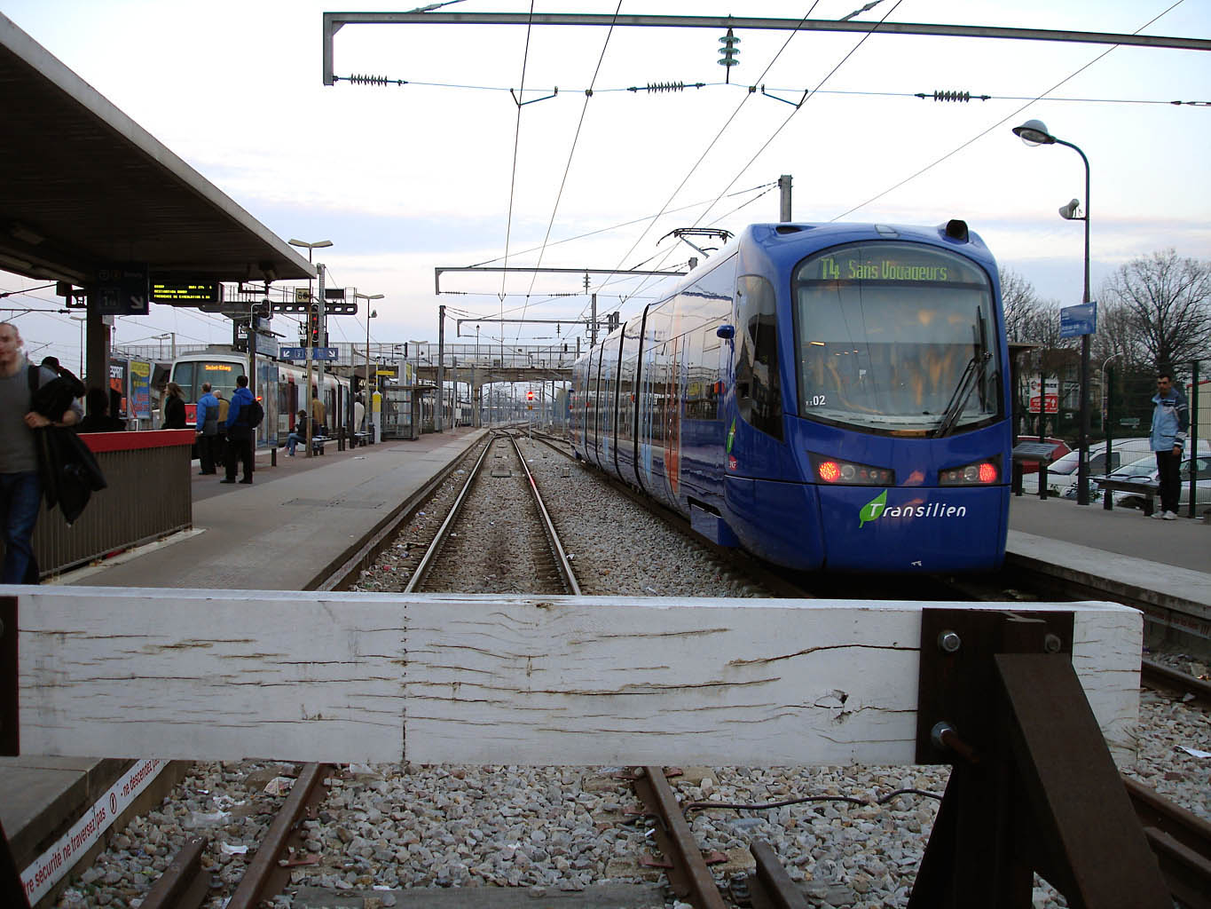 Gare d'Aulnay-sous-Bois (Seine-Saint-Denis). Photo personnelle (own work) de Clicsouris